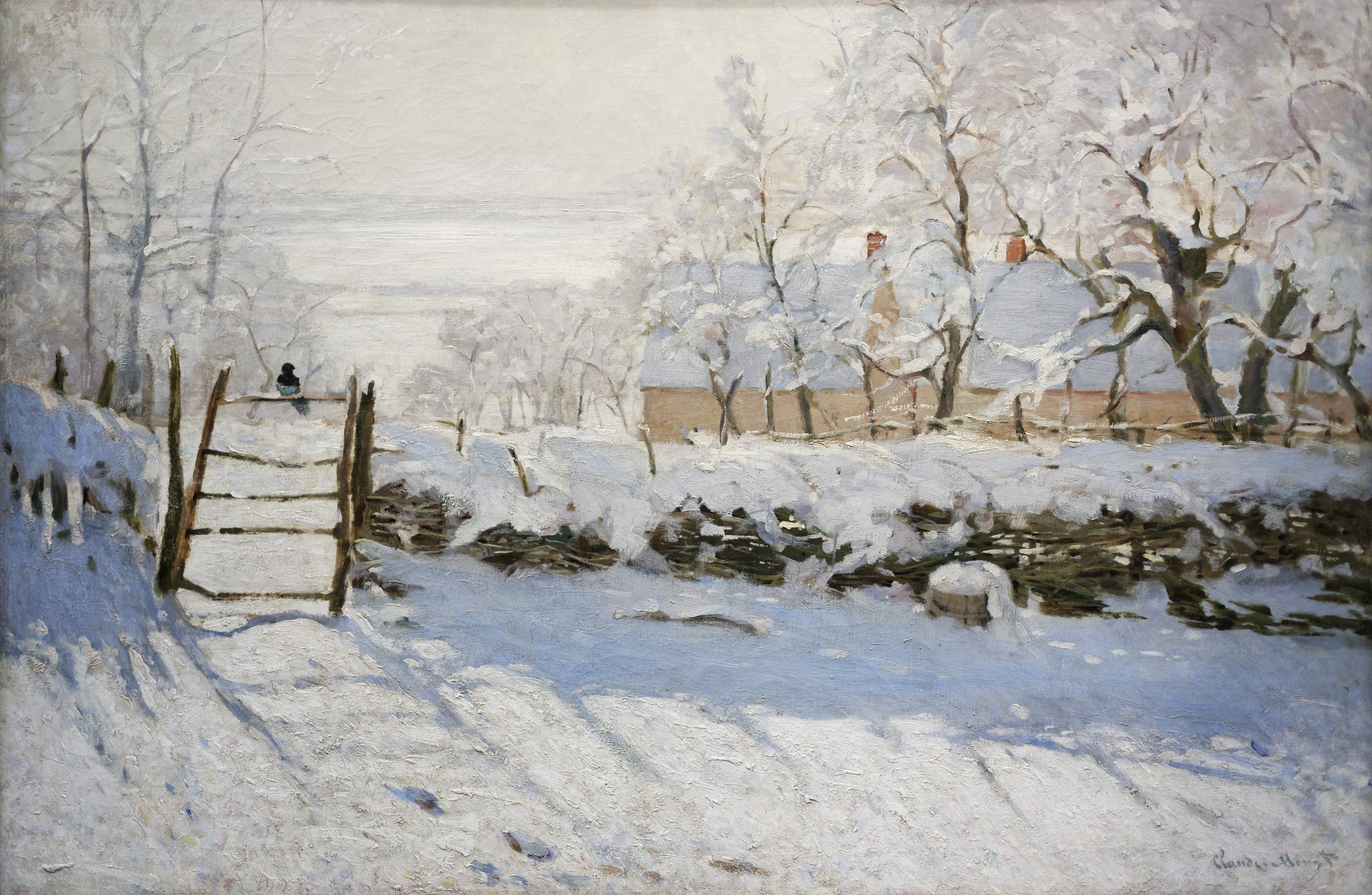 Snowscape painting by the French Impressionist Claude Monet depicting a solitary black magpie perched on a fence.